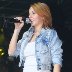 MakSim on her show in Naberezhnye Chelny